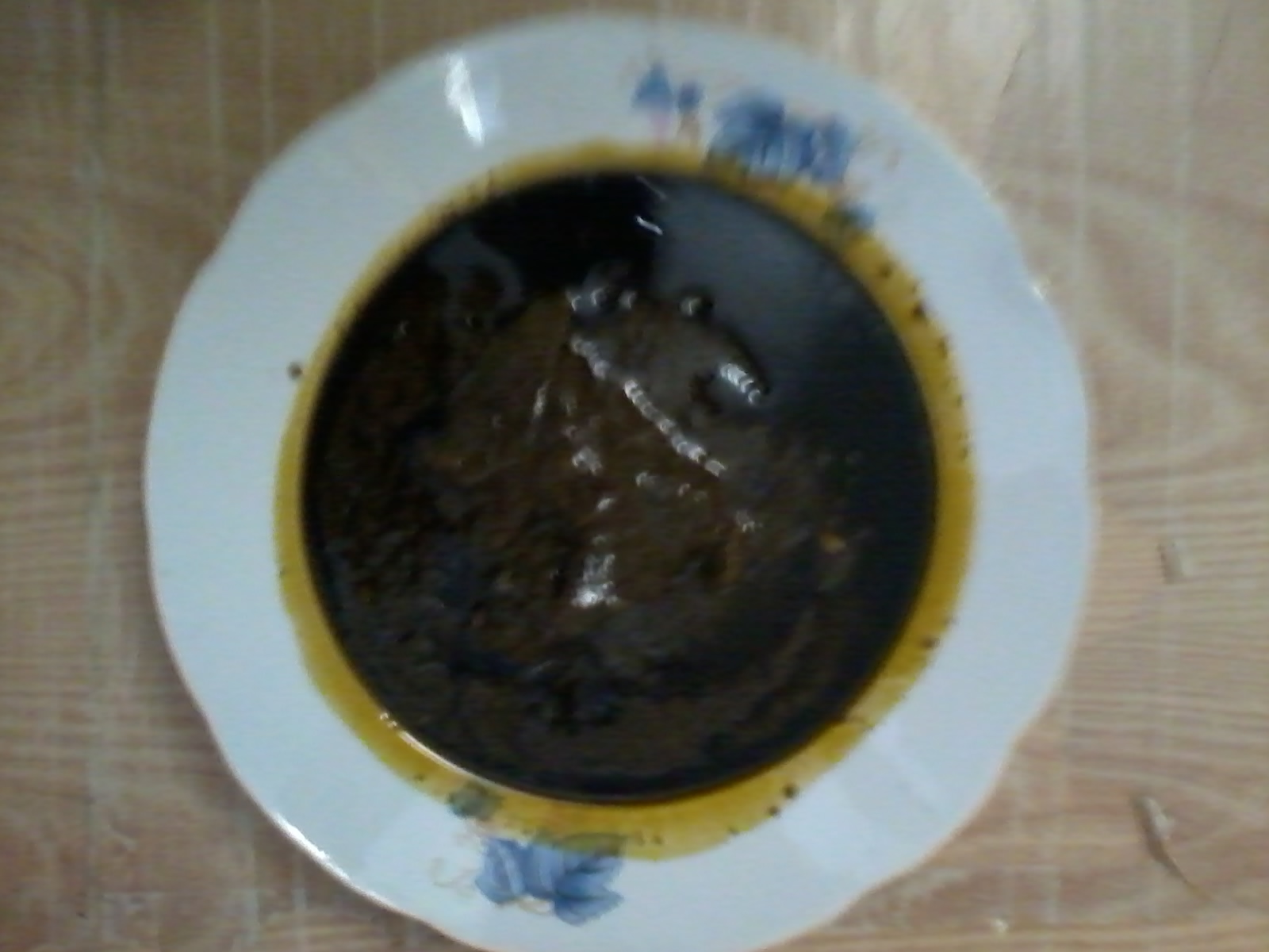 Tunisian Molokheya This is an image of food from Tunisia